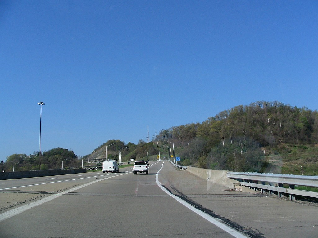 A view of PA Route 28 coming onto the highway from the Tarentum Interchange heading south.